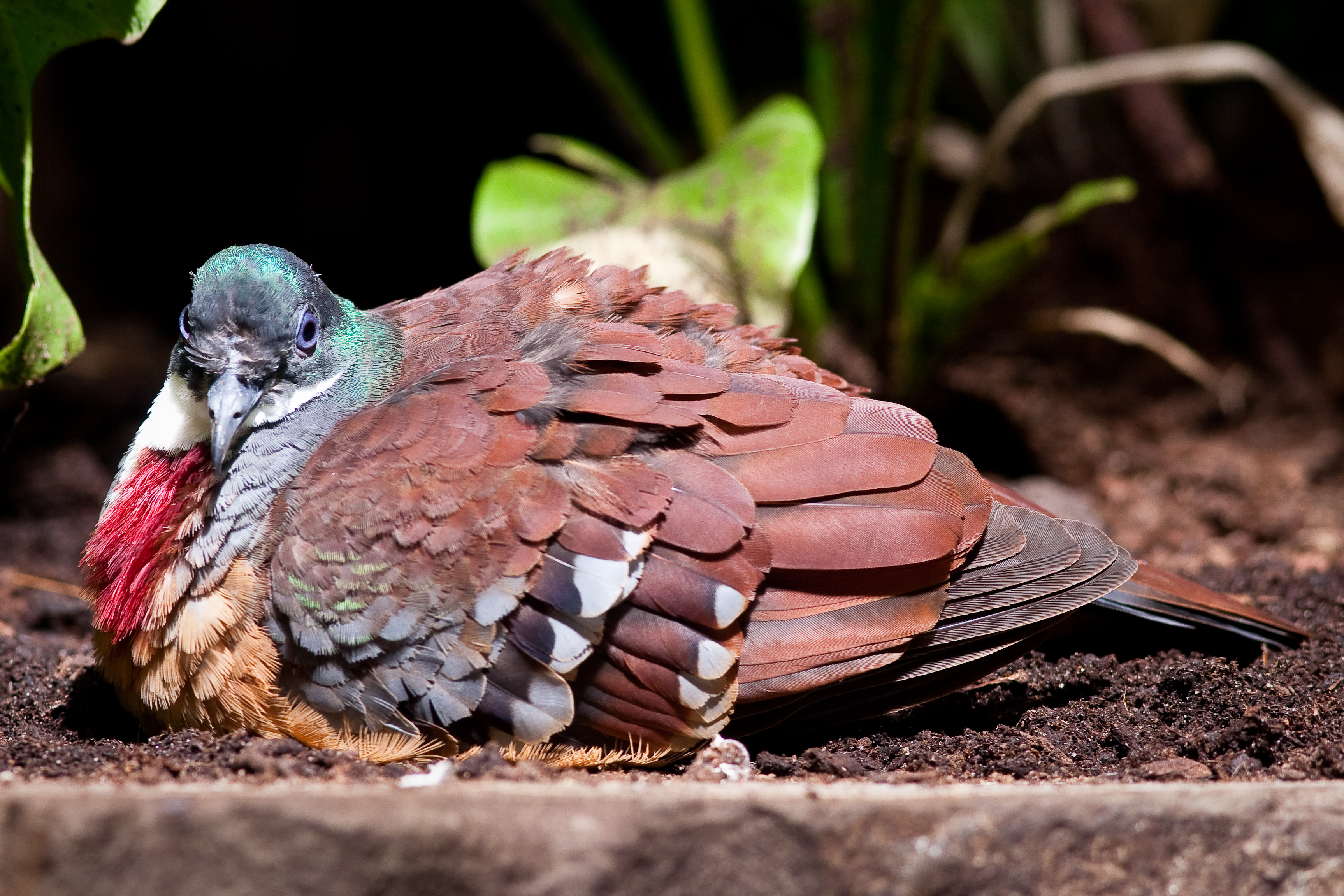 Mindanao Bleeding-heart at Artis Zoo, Netherlands.